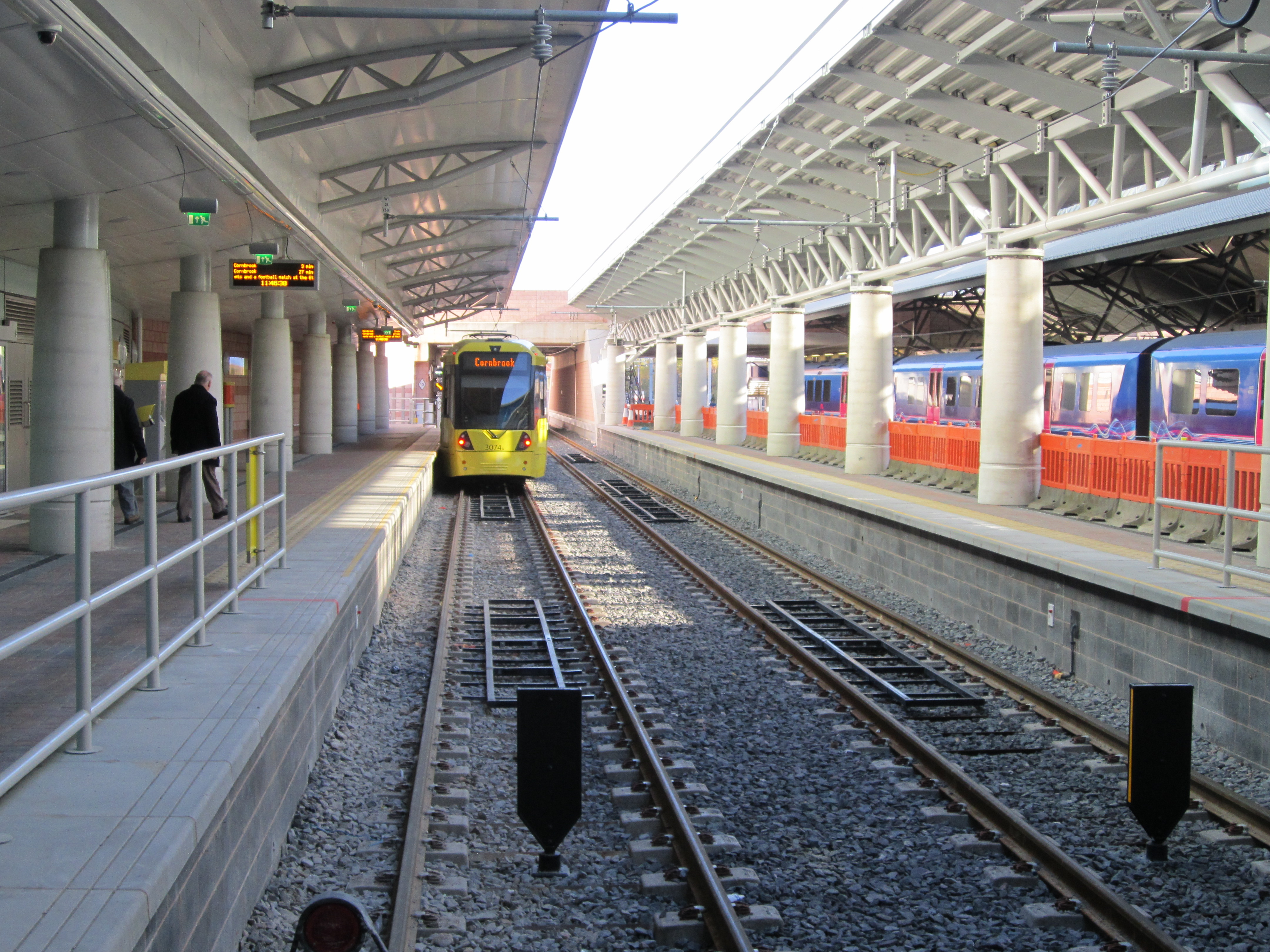 Manchester Airport Metrolink station.